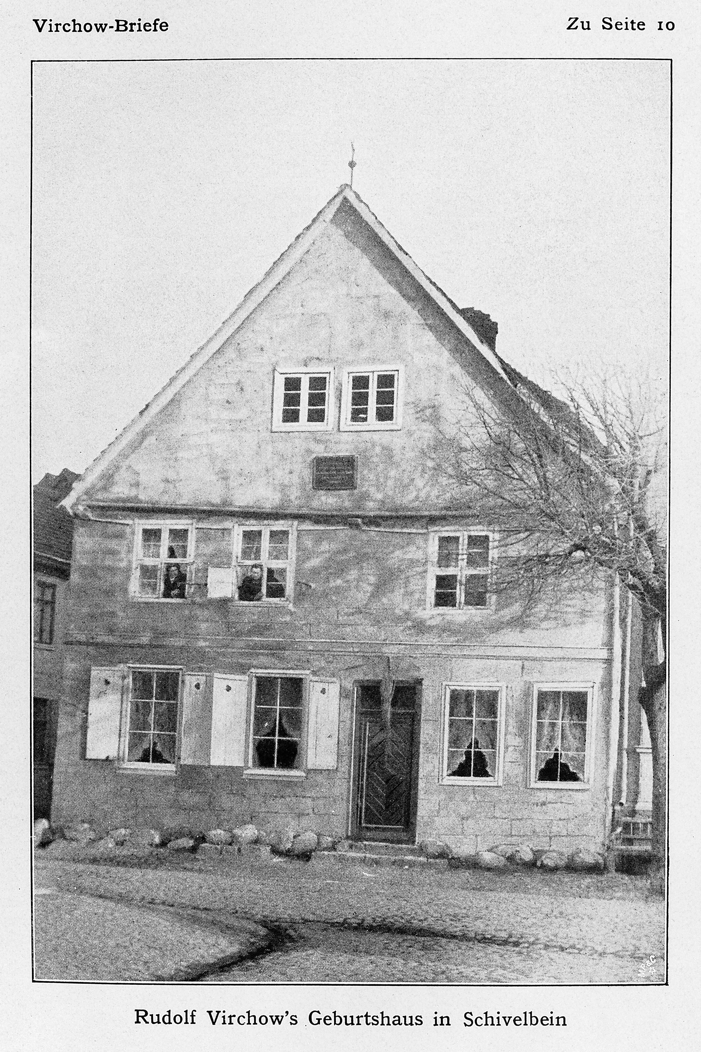 R. Virchow's birthplace General Collections Keywords: Rudolf Ludwig Karl Virchow